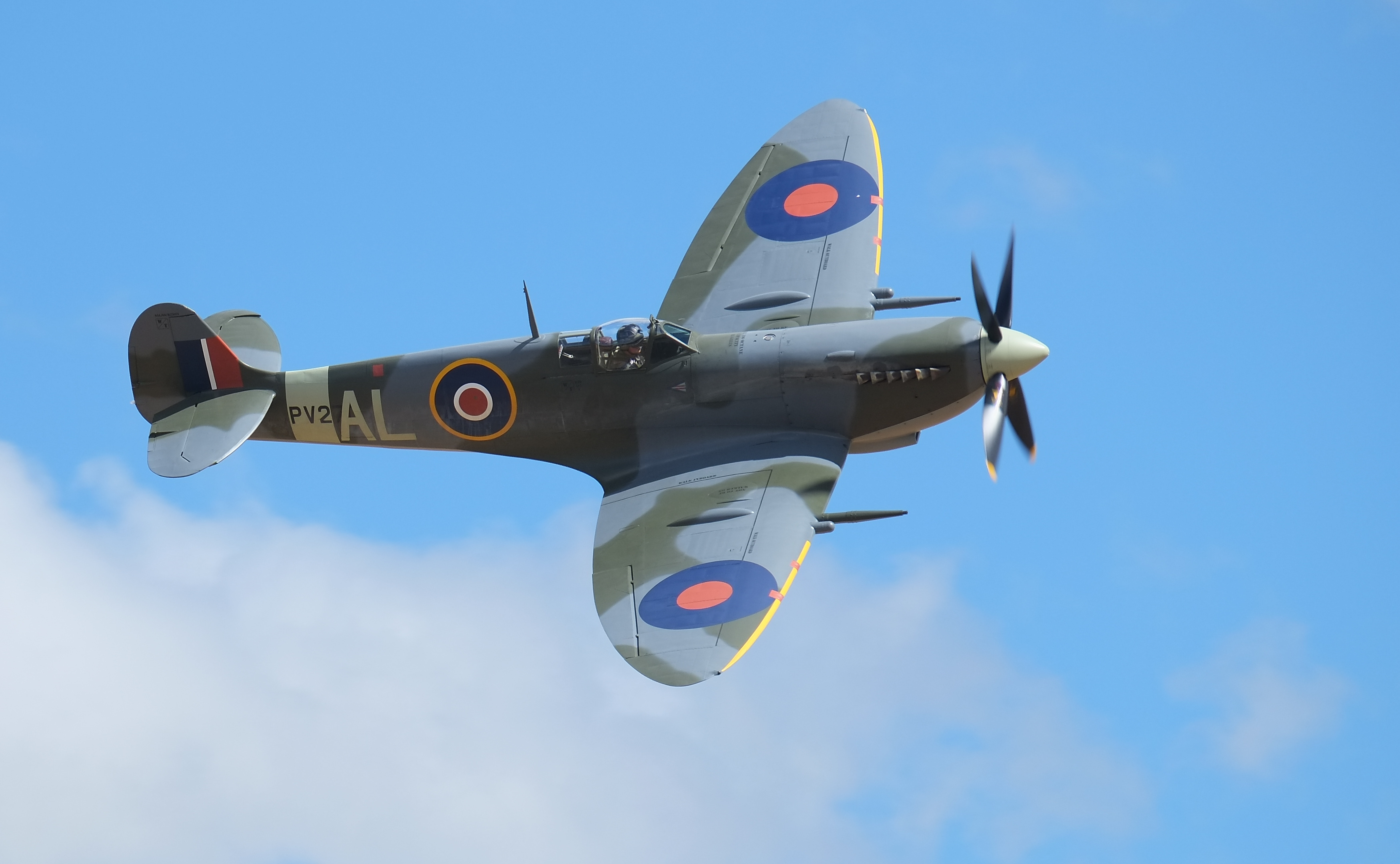 Spitfire Mk IX flying past (rebuilt with the markings of New Zealand's most famous Battle Of Britain pilot, Alan Deere)